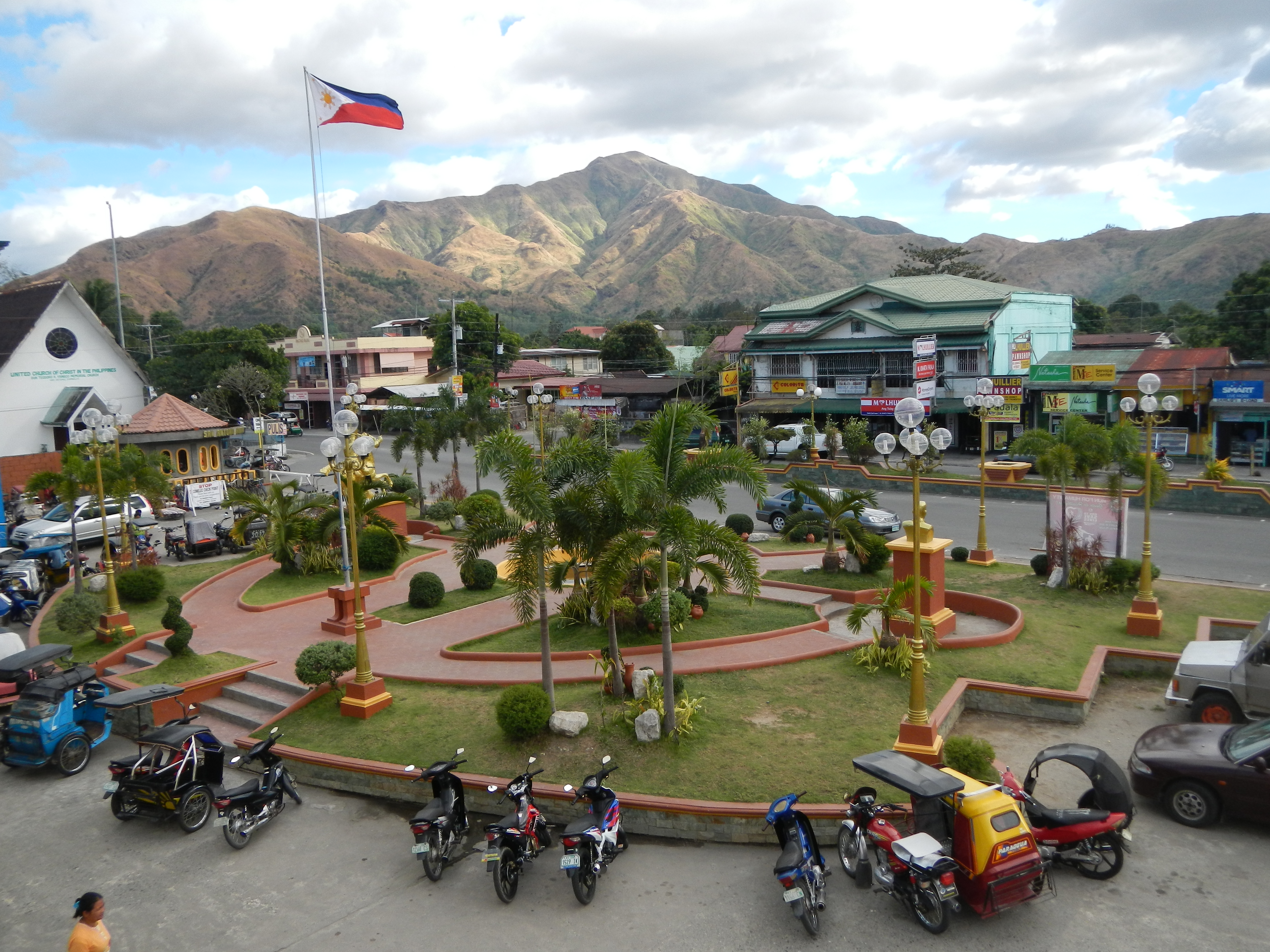 San Antonio, Zambales[1] is a 2nd class municipality in the province of Zambales in the Philippines. According to the latest Philippine census, it has a population of 34,217 people in 6,483 households in an area of 18,812 hectares. As of 2010, it has 17,539 registered voters.[2]Barangay Pundaquit (Pundakit) is a fishing village located in San Antonio, Zambales. Camara Island Capones Island Anawangin Cove Nagsasa Cove Public Market[3][4]Land Area: 188.12 km² ZIP Code: 2206 Coordinates: 14°51'27"N 120°6'42"E